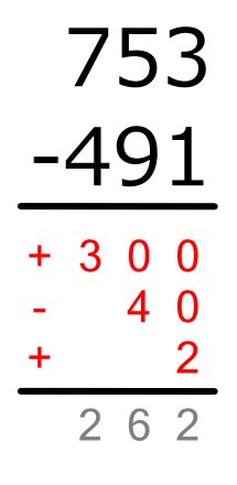 Partial Differences subtraction method